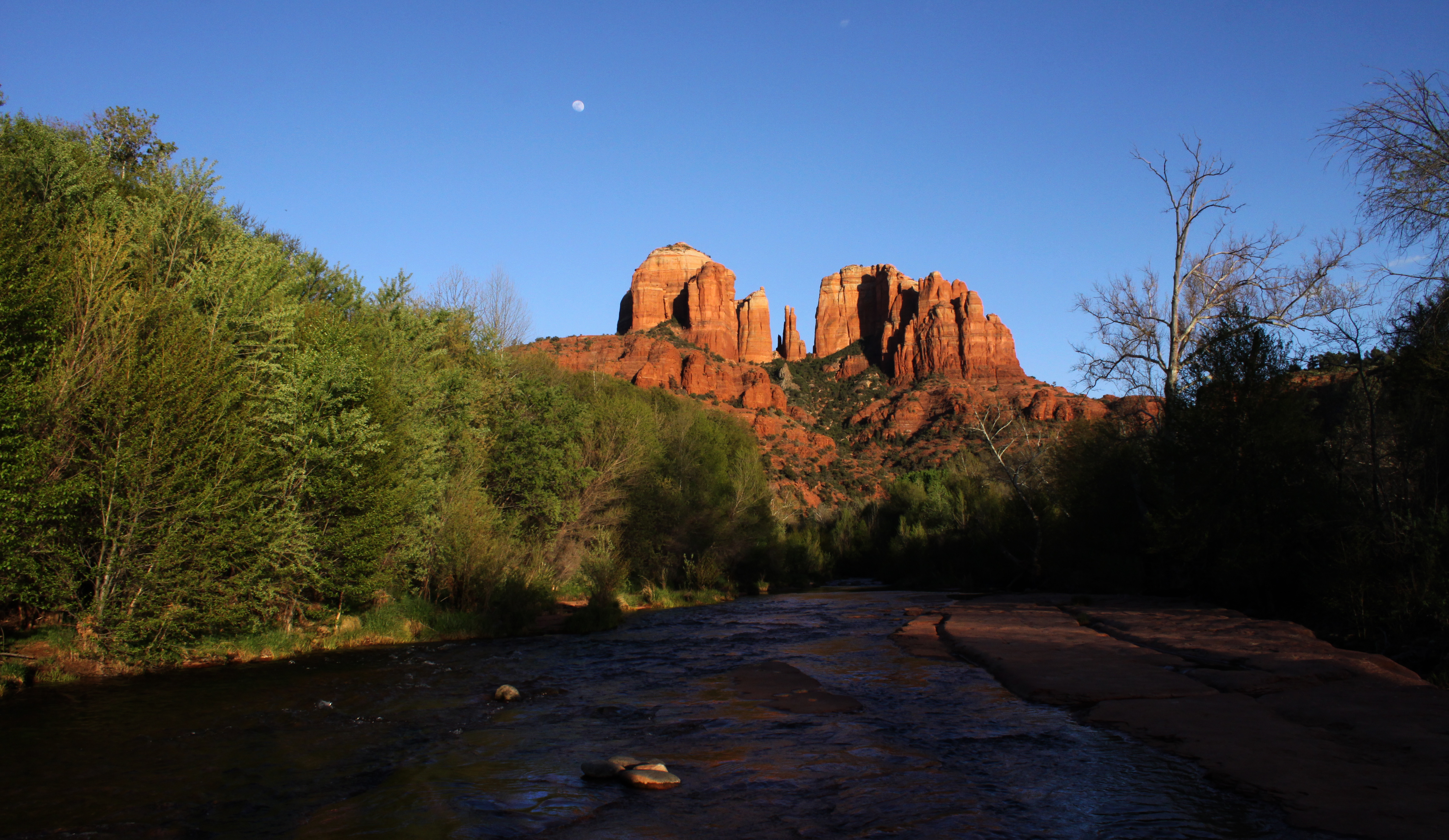 Cathedral Rock, Sedona, Arizona.